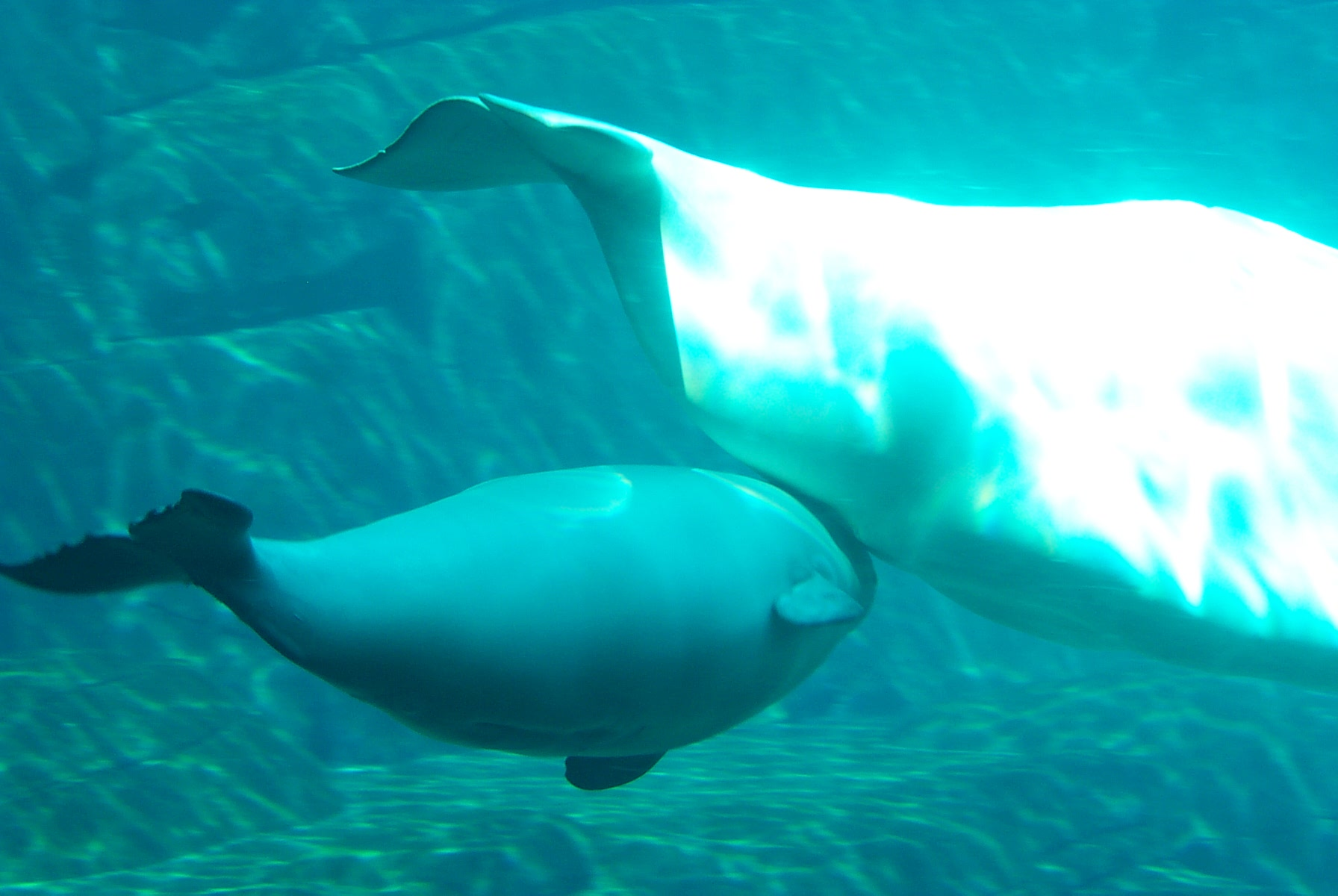 Beluga whale and her calf at the Vancouver Aquarium. The calf was approximately 2 months old when this photo was taken. Photographed by User:Pburka, 2002.